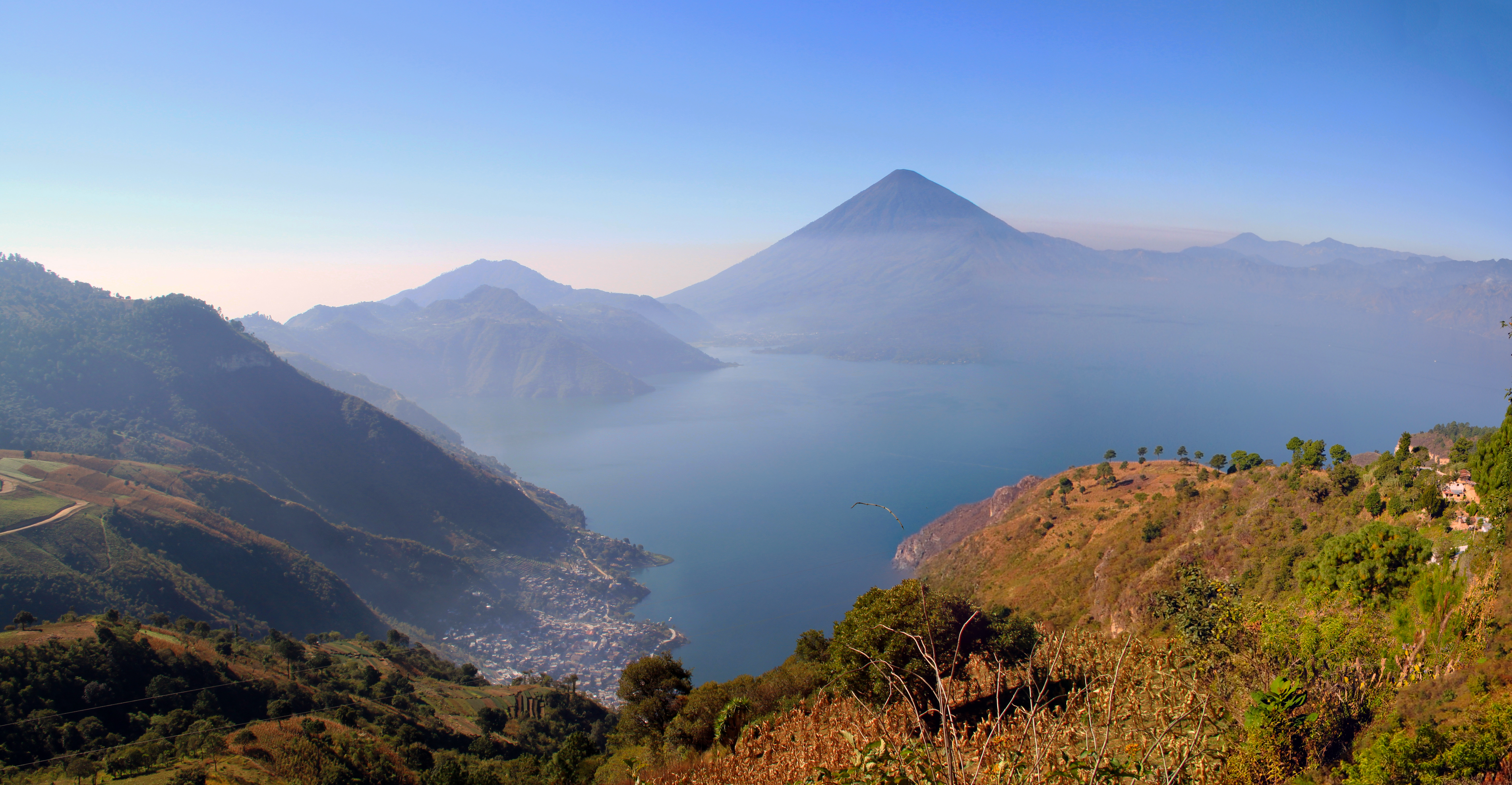 View of Lake Atitlan and the Atitlán volcano (center) in Guatemala, 2009. In the foreground, the town of San Antonio Palopó.